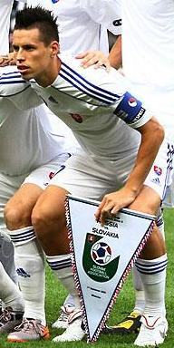 Marek Hamšík in Slovakia national football team